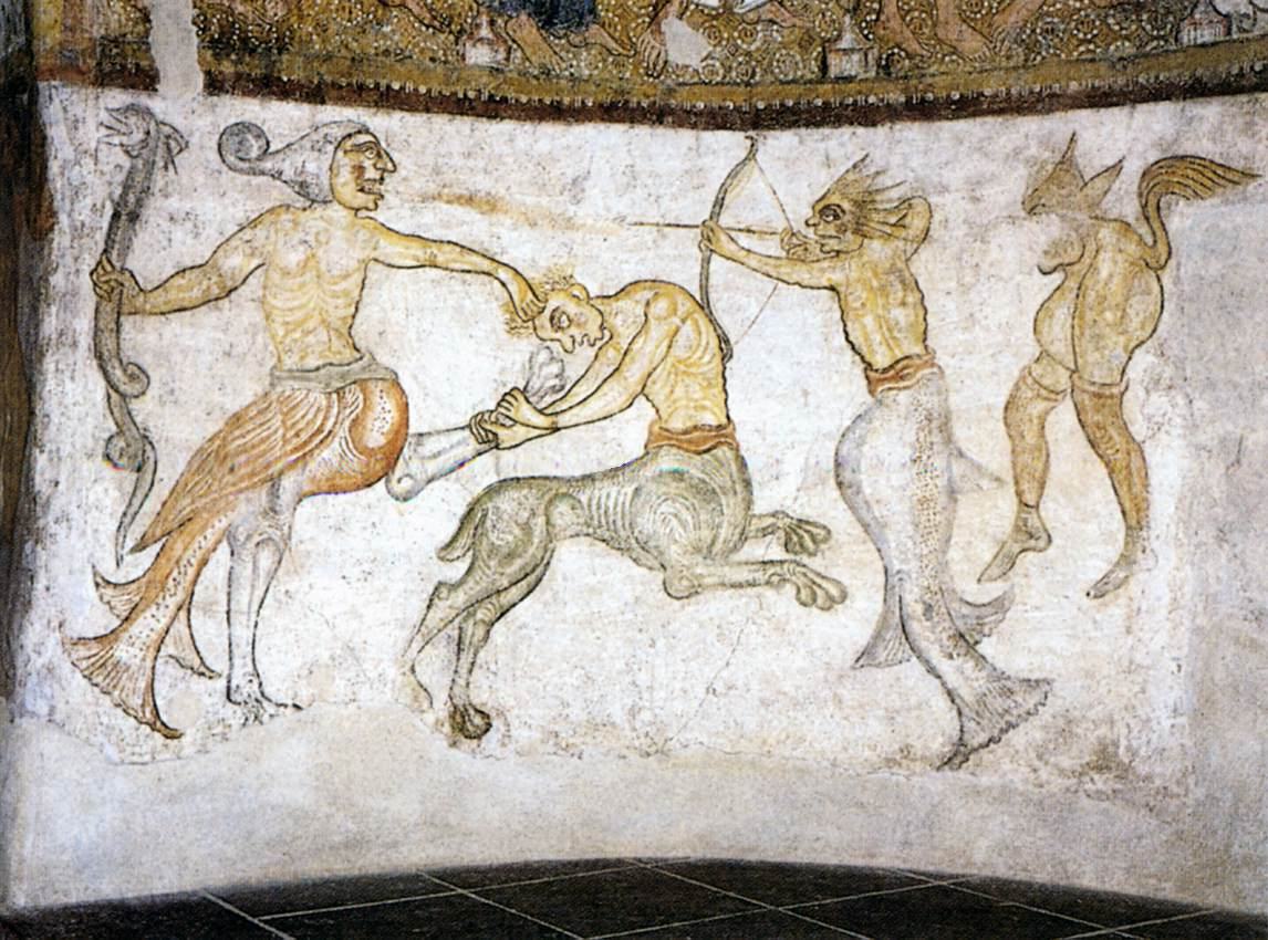 Romanesque frescos of demons in St. Jakobs chapel in Kastellaz (St. Jakob in Kastelaz), Tramin an der Weinstrasse, South Tyrol, Italy